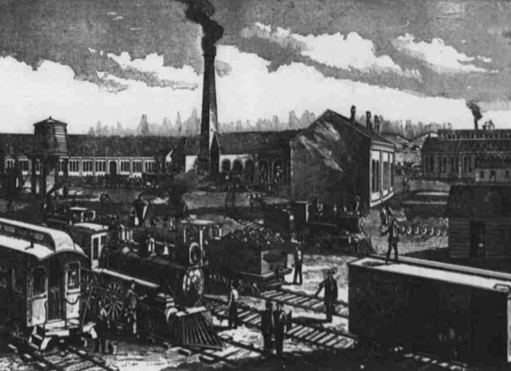 The Union Pacific Railroad Company in Albina, Oregon from the May 2, 1891 edition of the The Illustrated West Shore.